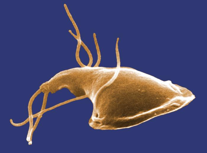 ID#: 11649 Description: This digitally-colorized scanning electron micrograph (SEM) depicted the dorsal (upper) surface of a Giardia protozoan that had been isolated from a rat’s intestine. Some of the identifying morphologic characteristics include pairs of thread-like flagella that facilitate motility, and a ventolateral flange that appears as a “ruffle” around the anterior portion of the organism. Pairs of flagella seen here include an anterior, posterior-lateral, and caudal pairs. The protozoan Giardia causes the diarrheal disease called giardiasis. Giardia species exist as free-swimming (by means of flagella) trophozoites, and as egg-shaped cysts. It is the cystic stage, which facilitates the survival of these organisms under harsh environmental conditions. The cyst is considered the infective form, and disease is often transmitted by drinking contaminated water. As depicted in these SEMs, in the intestine, cysts are stimulated to liberate trophozoites. Cysts can be shed in fecal material, and can, thereafter, remain viable for several months in appropriate environmental conditions. Cysts can also be transferred directly from person-to-person, as a result of poor hygiene. Dr. Stan Erlandsen; Dr. Dennis Feely